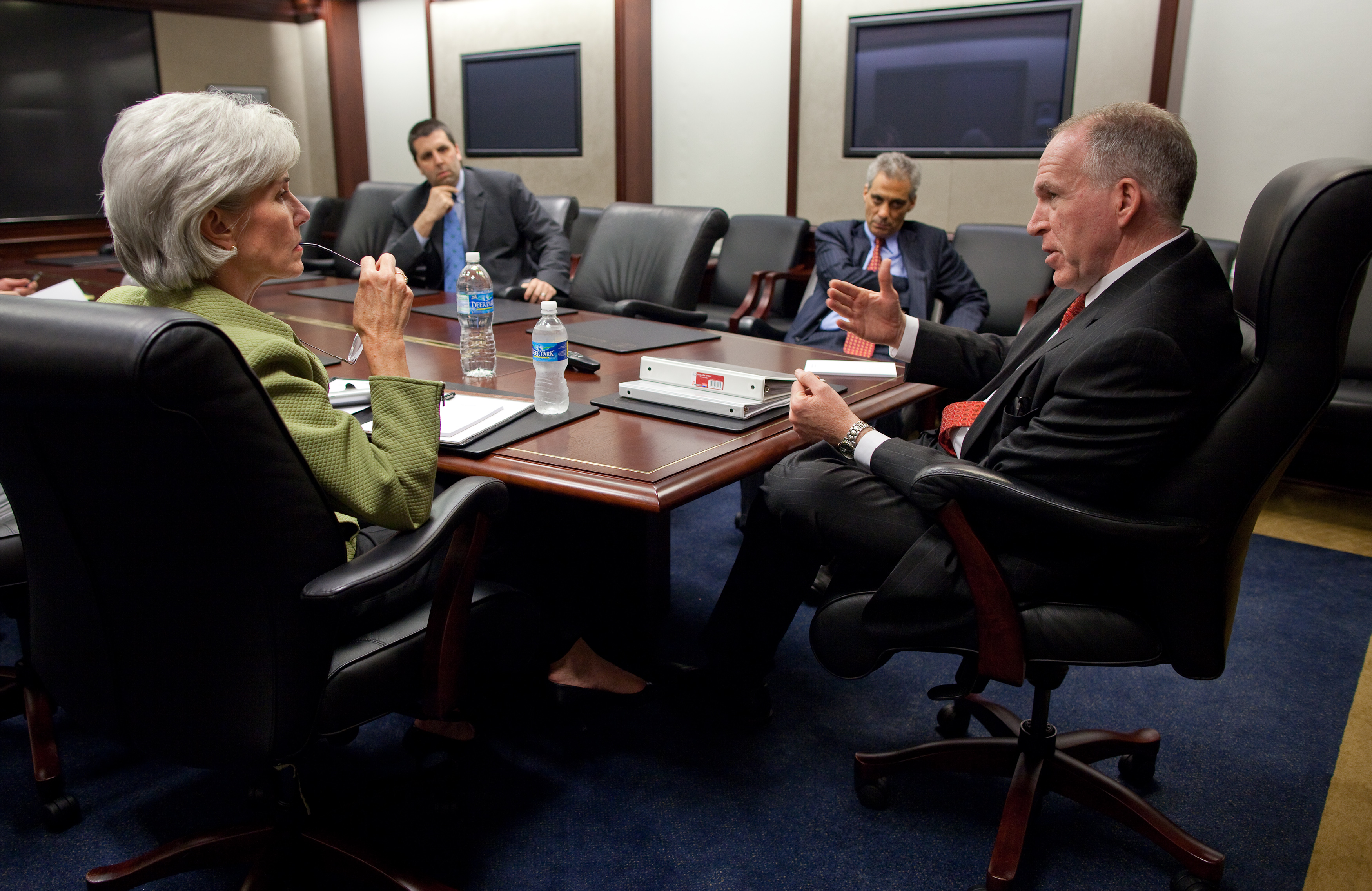 The new Secretary of Health and Human Services, Kathleen Sebelius, is briefed on the 2009 H1N1 flu by John Brennan, assistant to the President for Homeland Security, in the Situation Room of the White House on April 28, 2009. Sebelius was sworn in moments earlier in the Oval Office. Chief of Staff Rahm Emanuel, right, and National Security chief of staff Mark Lippert are in background.